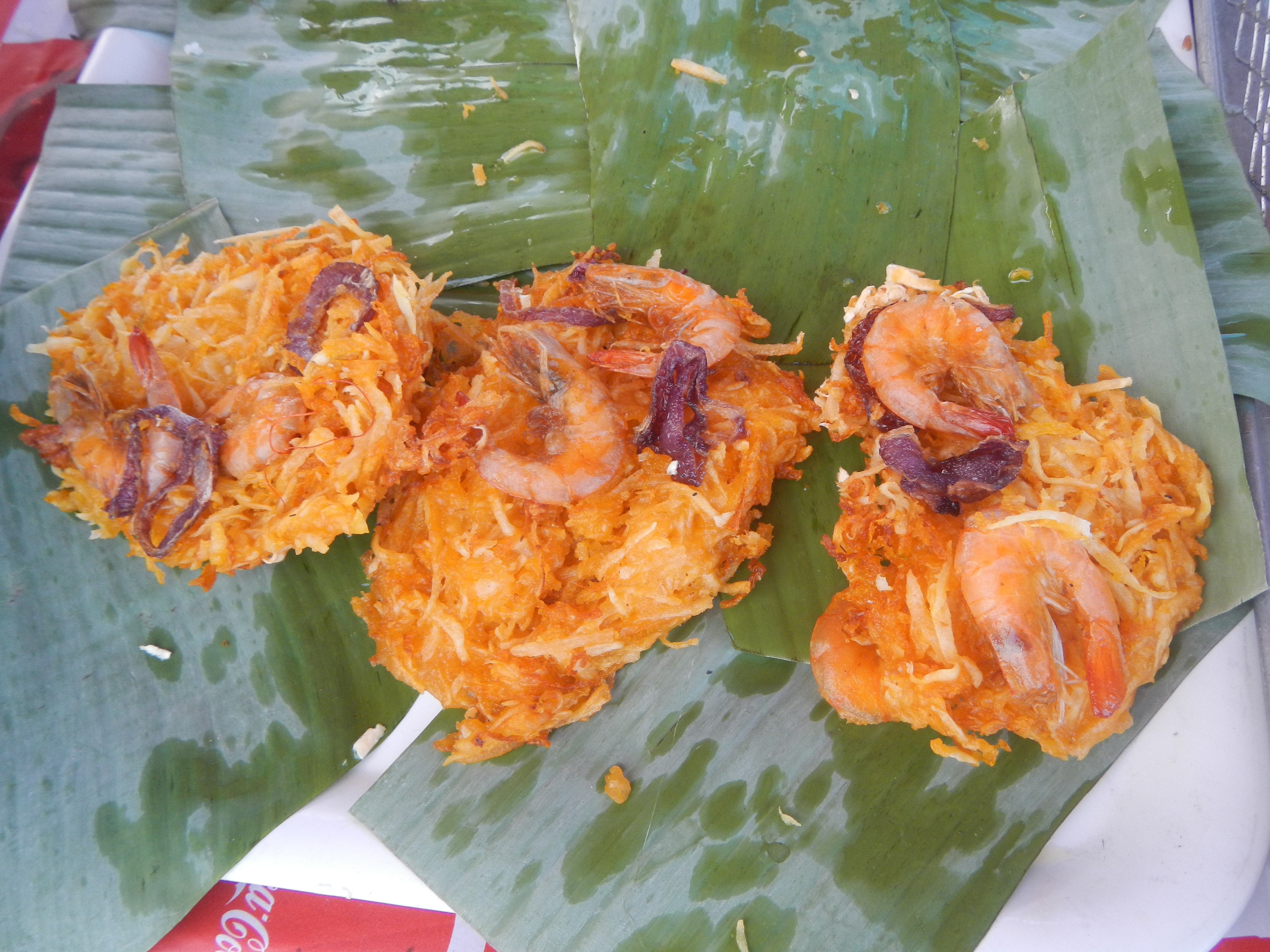 Food displayed for sale in Pampanga Kapampangan cuisine Santa Rita de Cascia "Apung Dita" Monument (Eco-Park, San Isidro Gasak, Santa Rita, Pampanga) Inaugurated on December 2, 2017 on the 16th Duman Festival (Eco-Park, San Isidro Gasak, Santa Rita, Pampanga) Barangay San Isidro 15°0'28"N 120°36'45"E Gasak 15°0'56"N 120°36'33"E from San Vicente 14°59'51"N 120°36'41"E Santa Rita, Pampanga (Note: Judge Florentino Floro, the owner, to repeat, Donor Florentino Floro of all these photos hereby donate gratuitously, freely and unconditionally all these photos to and for Wikimedia Commons, exclusively, for public use of the public domain, and again without any condition whatsoever).